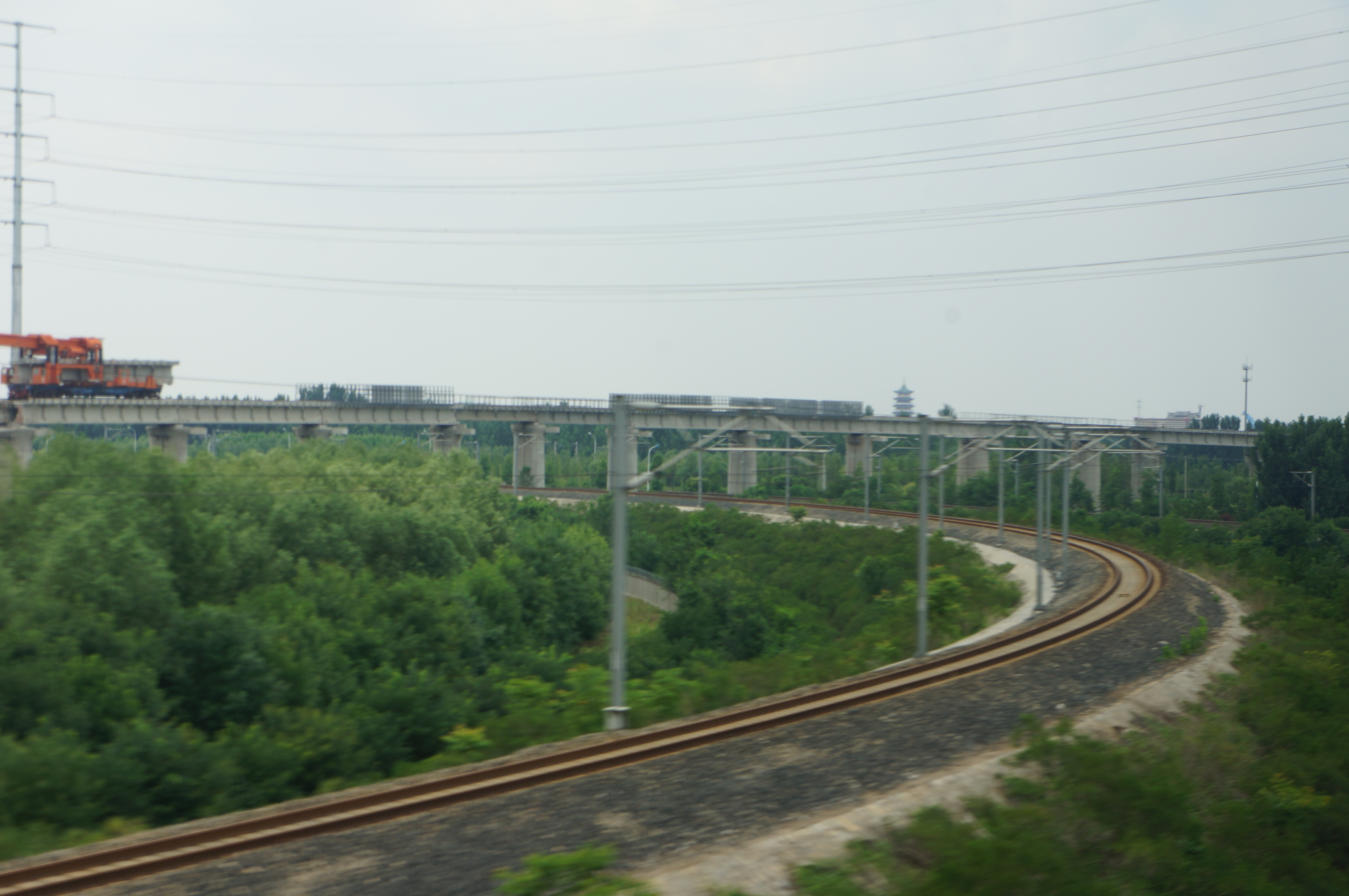 201606 Jinanxi EMU Depot